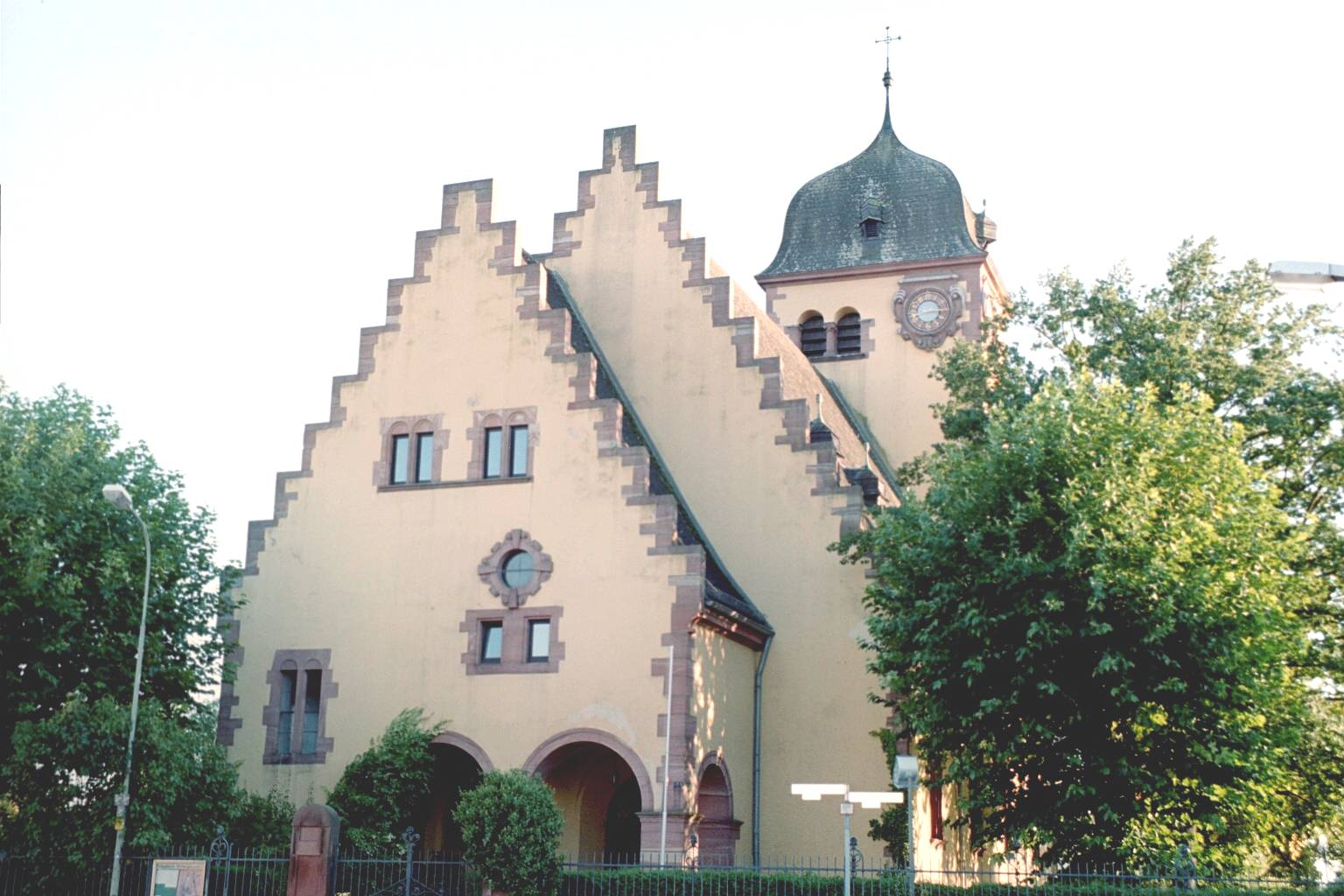 Hanau-Grossauheim, Gustav-Adolf-Church